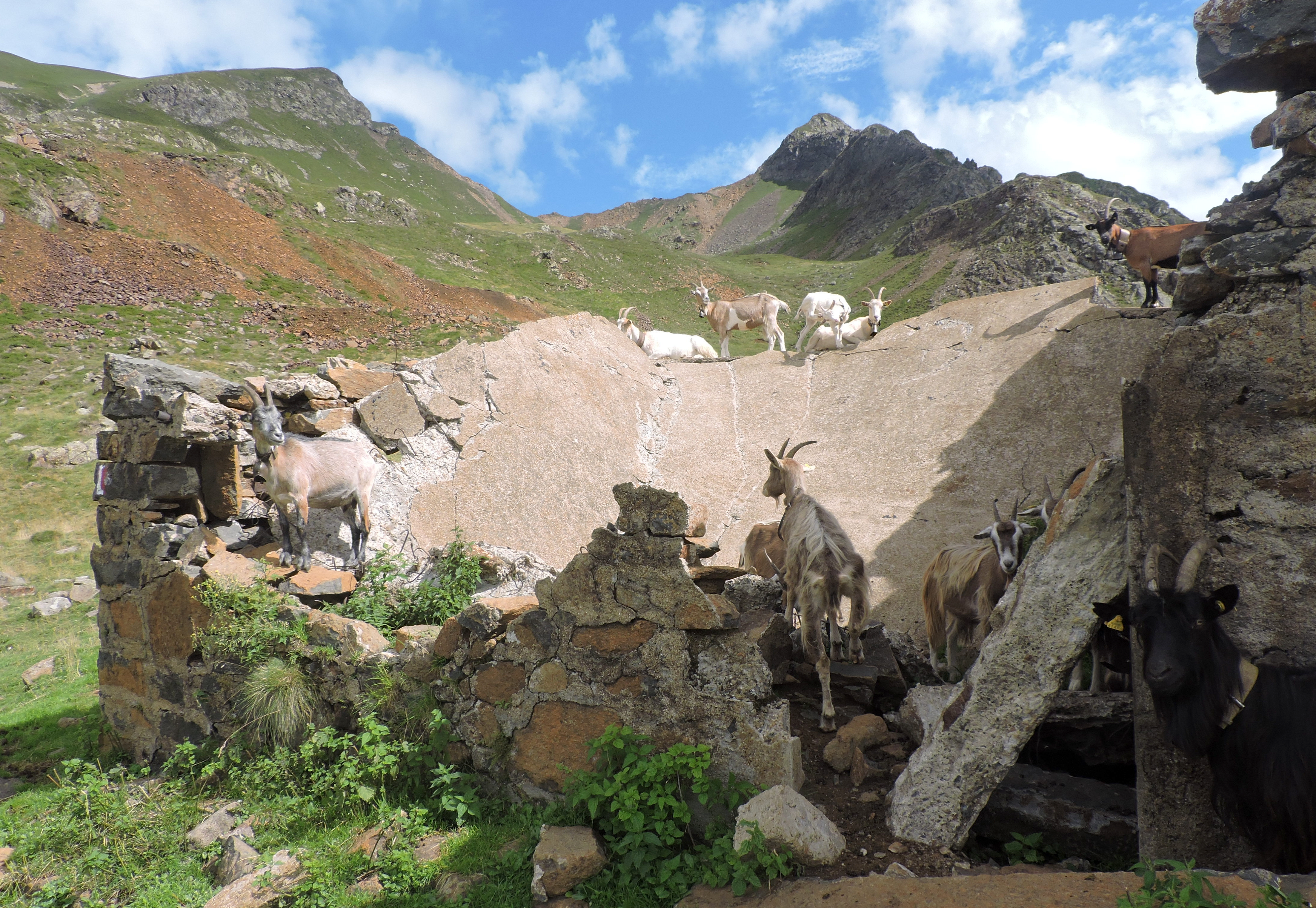 Old nickel mine of Alpe Laghetto (Pennine Alps, Italy); in the background, from left to right, Monte Capio, Passo dei Rossi and Corno dei Rossi